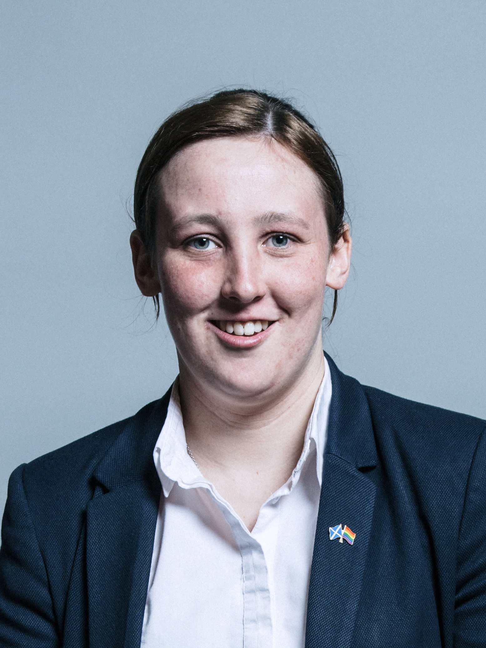 Official Parliamentary photograph of Mhairi Black MP.